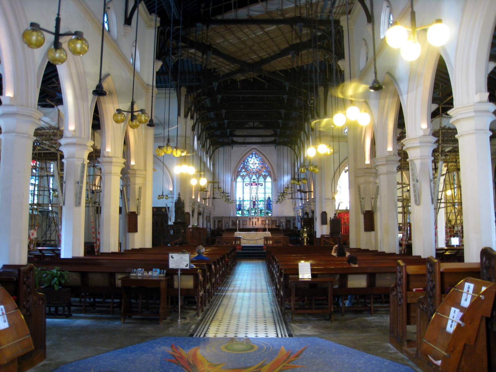 HK St John's Cathedral Interior 聖約翰座堂內部